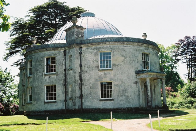 East Lulworth: church built to look like a house The Catholic church of St. Mary, in the grounds of 474252, was built by Thomas Weld in 1795. He had received permission from King George III to build the first Catholic church since the Reformation - on condition that it were built to resemble a garden temple.